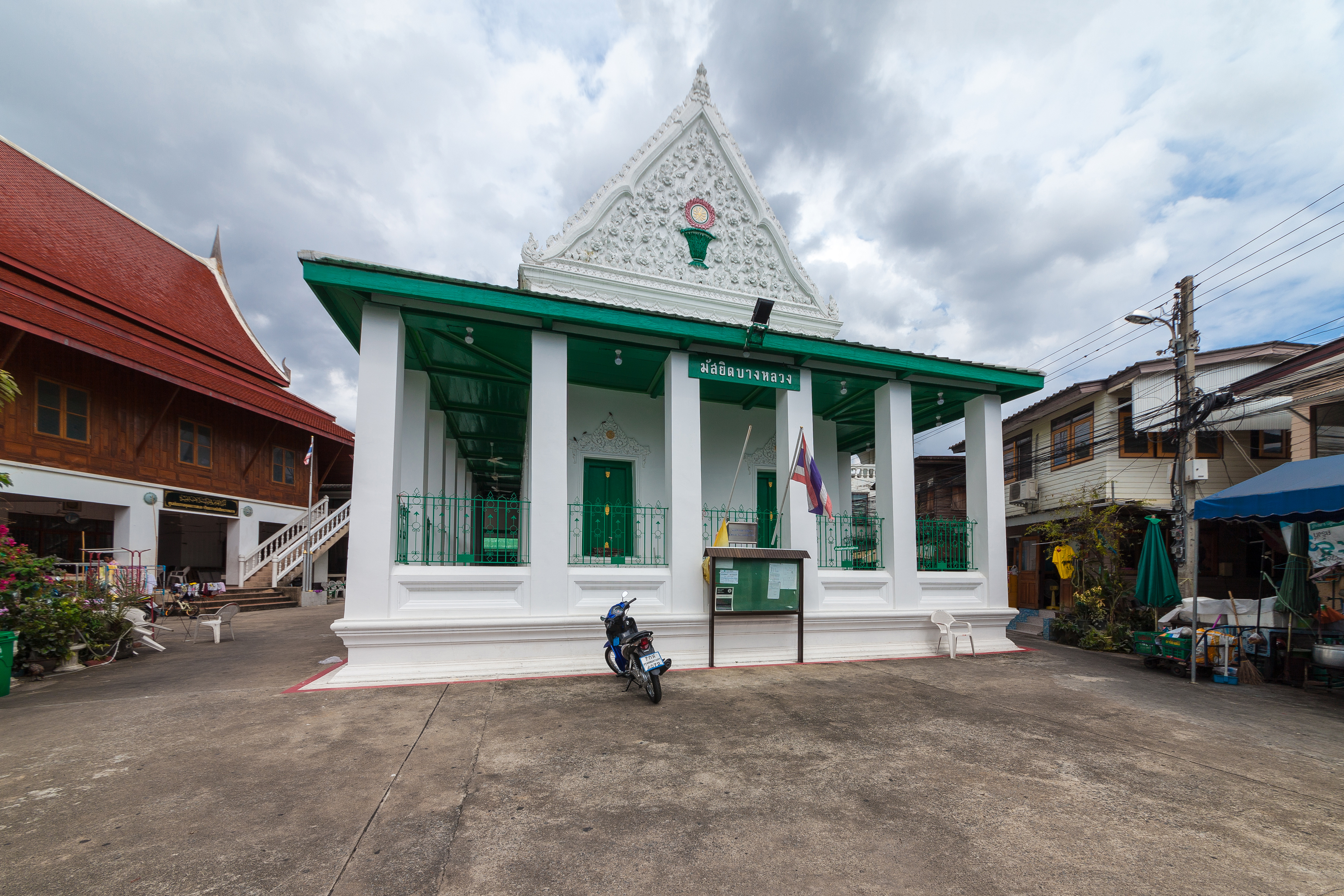 Bang Luang Mosque, Bangkok.